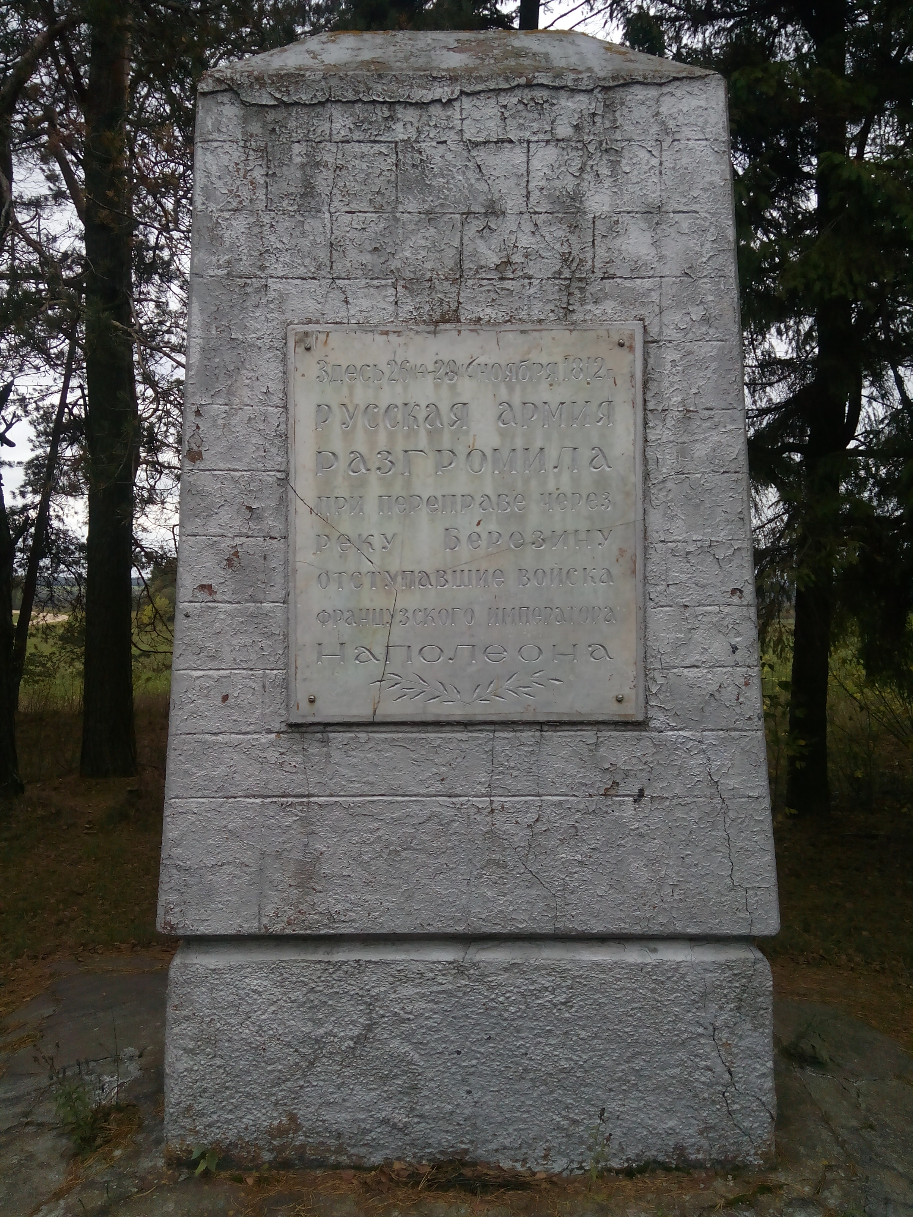 Memorioal on the main road